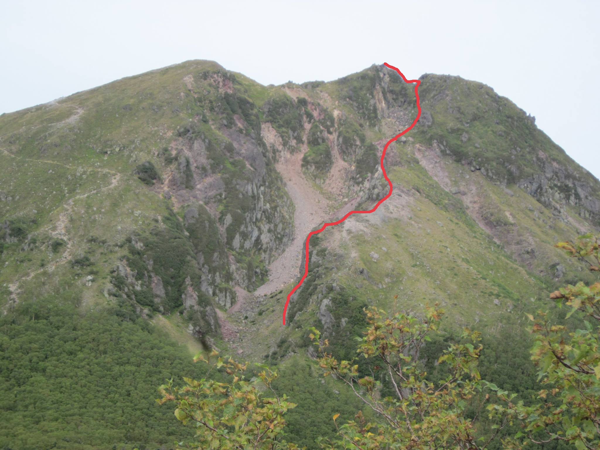 View of the variation climb on the east ridge of Nikko Shirane to the summit.